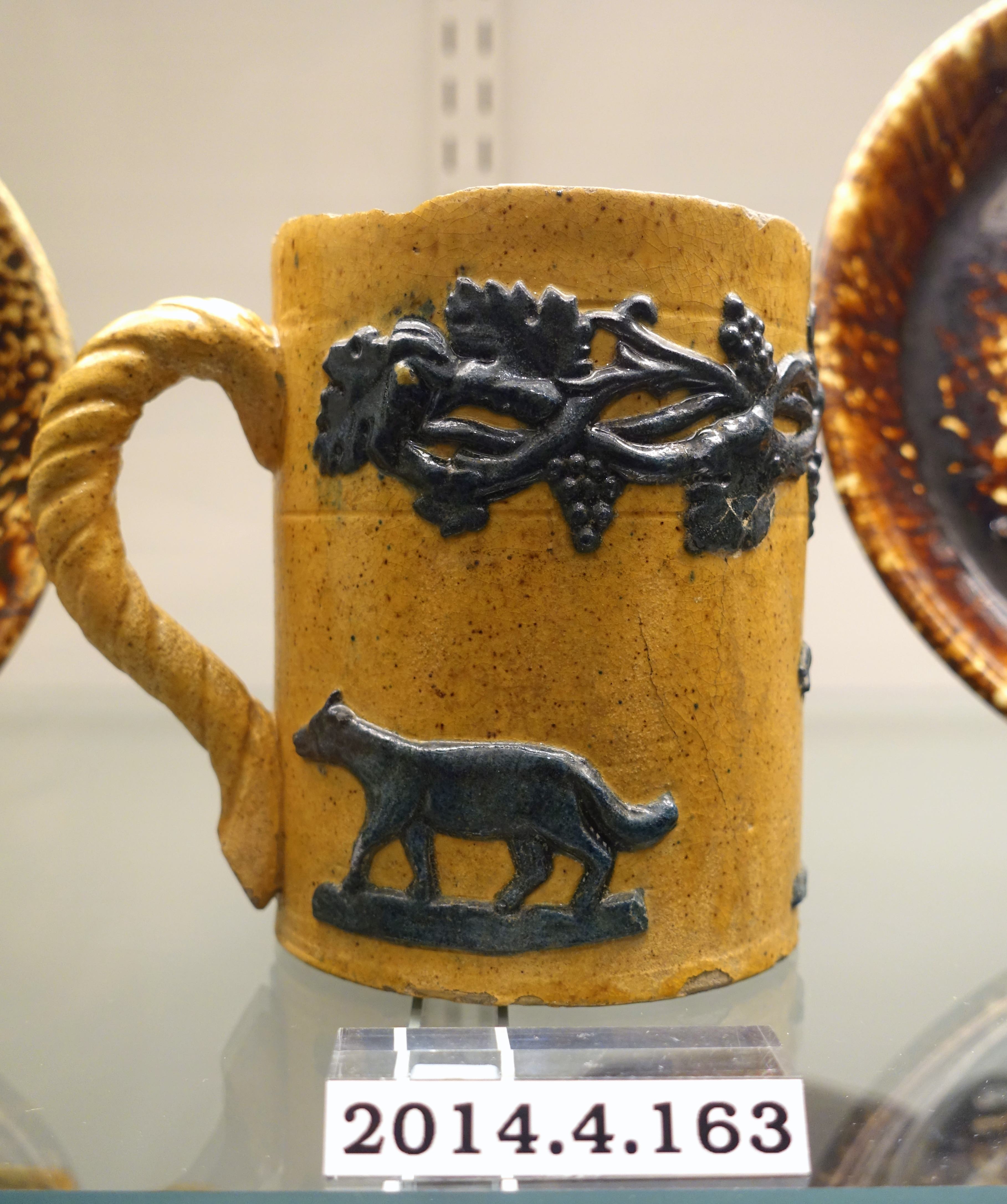 Exhibit in the Flynt Center of Early New England Life, Historic Deerfield - Deerfield, Massachusetts, USA.